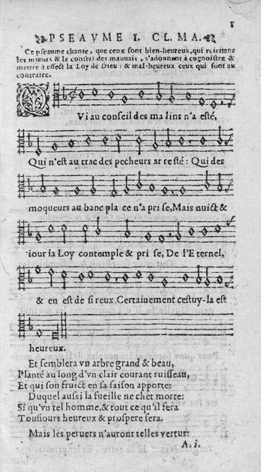 Psaume 1 extrait de l'édition des Psaumes de David de Jean de Laon (Genève, 1562).